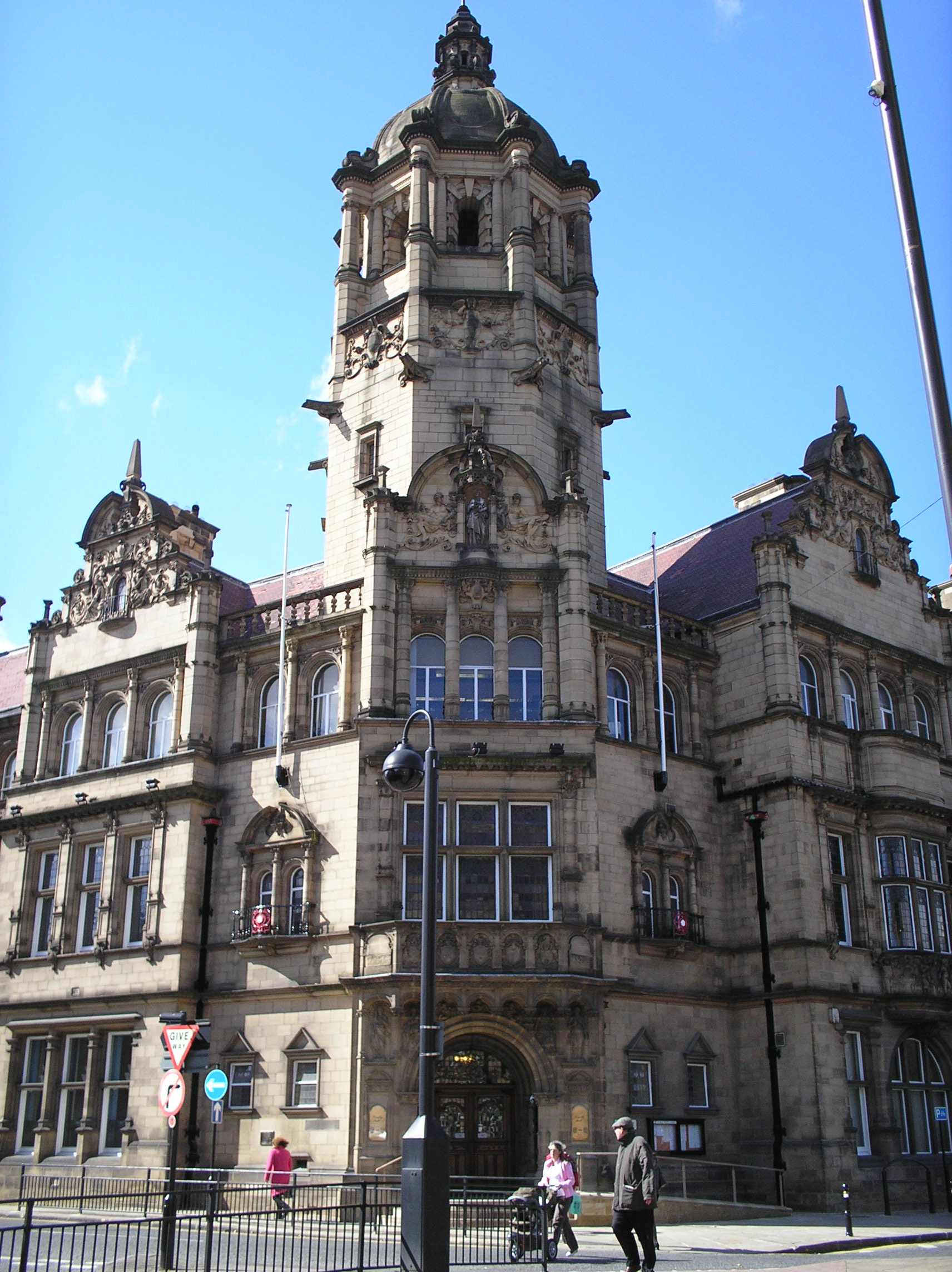 self taken on 31.3.06